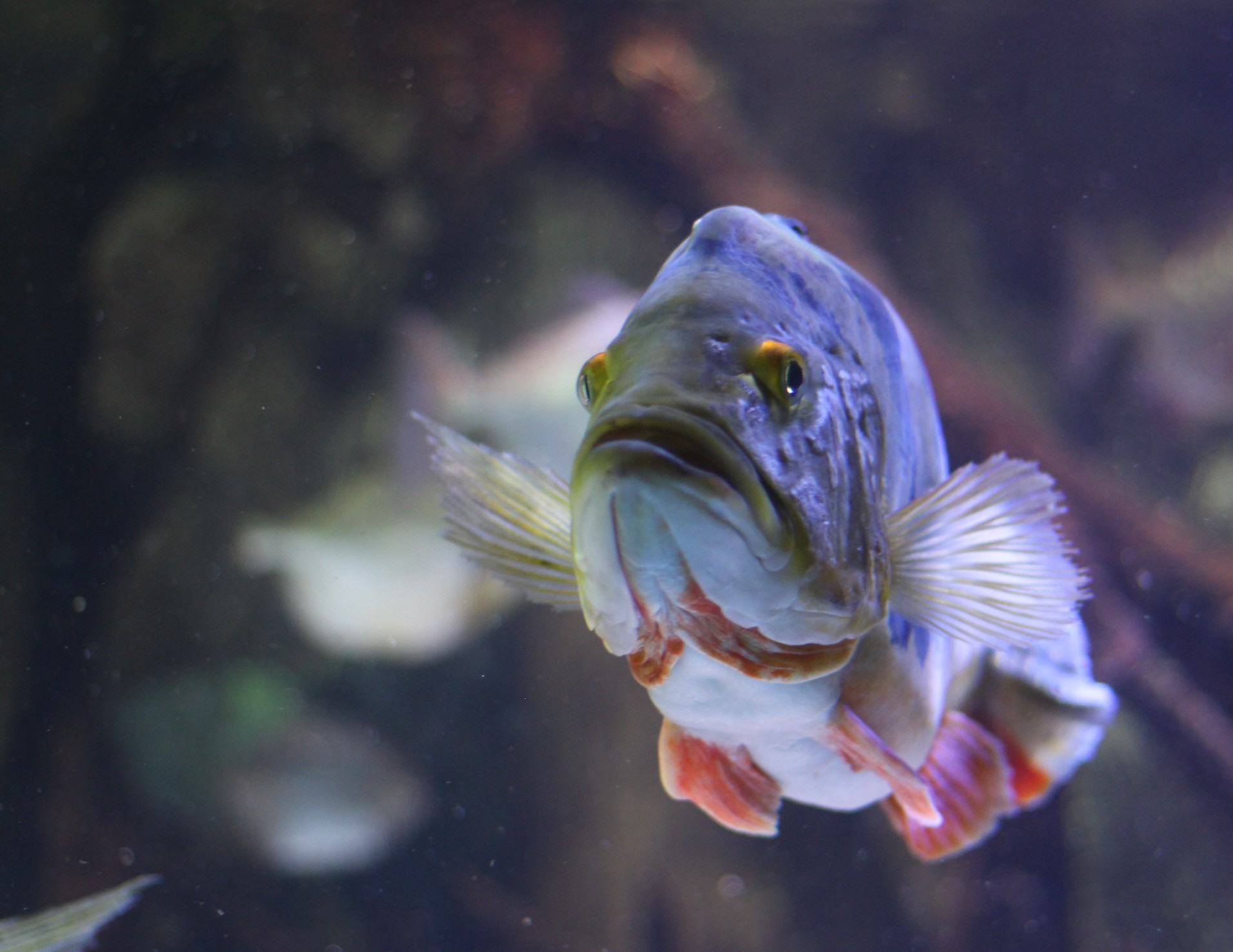 Kammbuntbarsch. This image has been originally created as the illustration for Meere Quiz at . It has been released under CC-BY-3.0 license.